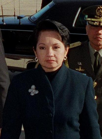 Cropped from a defense department photo of President Arroyo